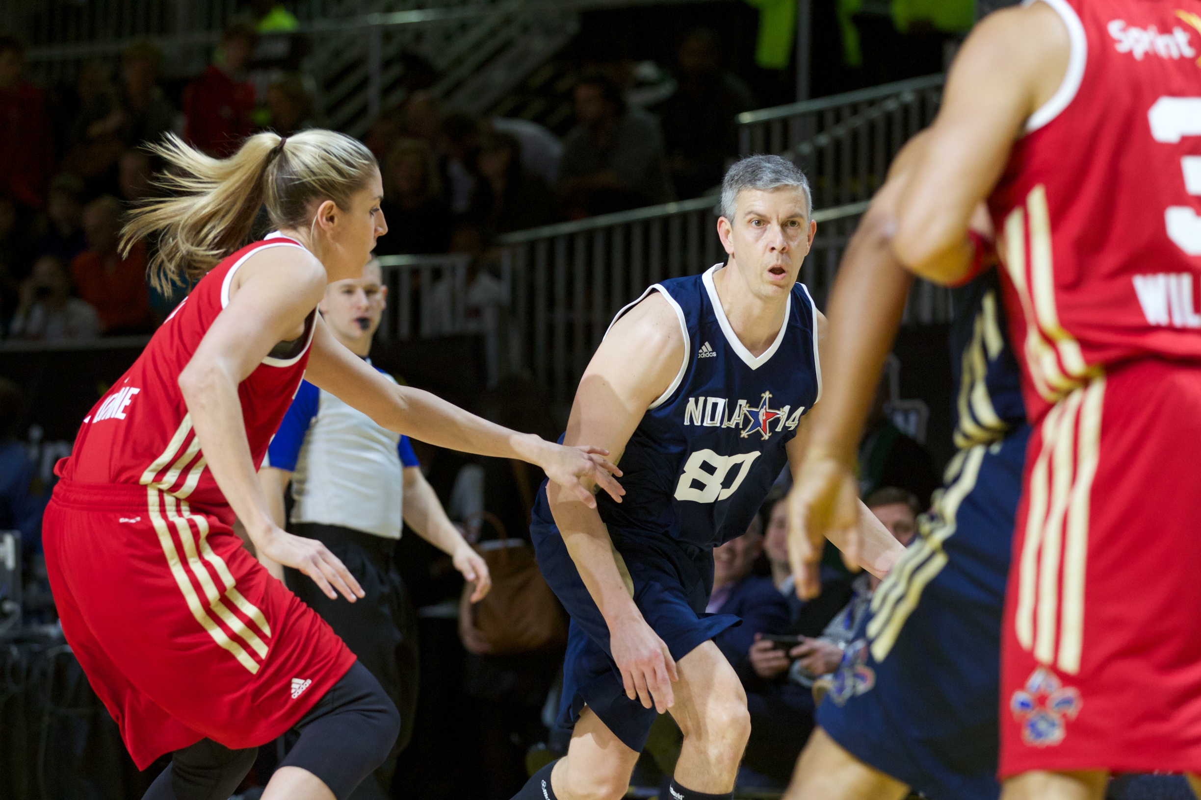 Arne Duncan defended by Elena Delle Donne at the 2014 NBA Celebrity All Star game